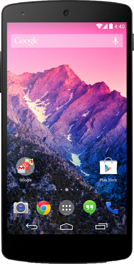 Nexus 5